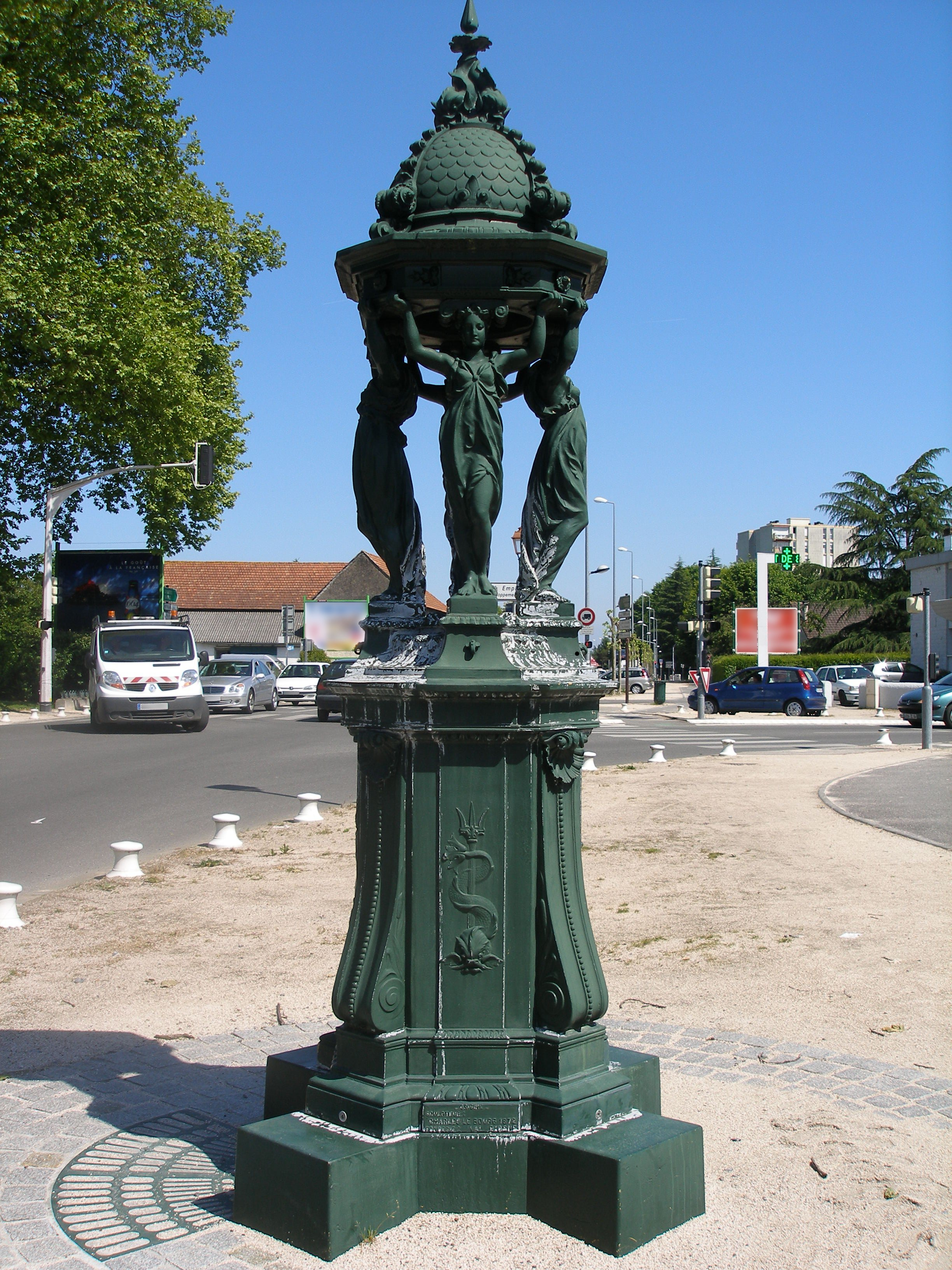 Illustration of Wallace fountain in Pau (France, 64000)